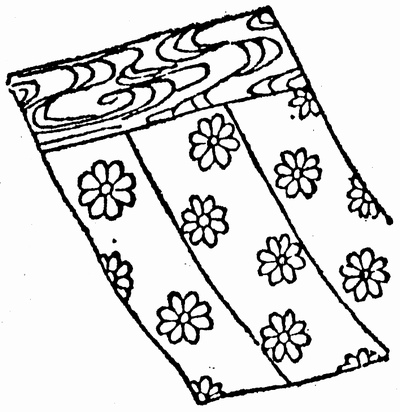 Fusuma (衾) from the Wakan Sansai Zue (和漢三才図会)